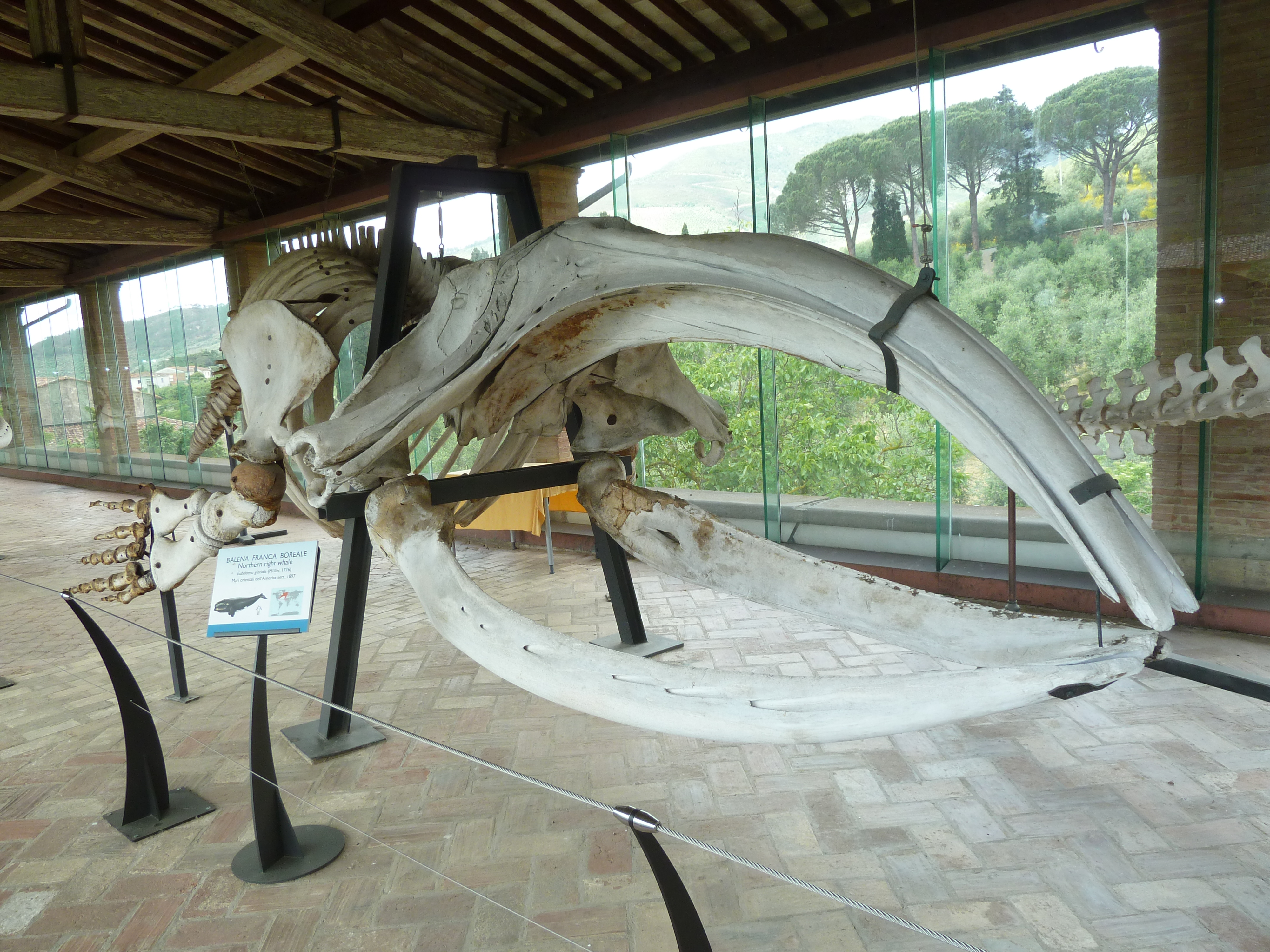 Northern Right Whale Eubalaena glacialis